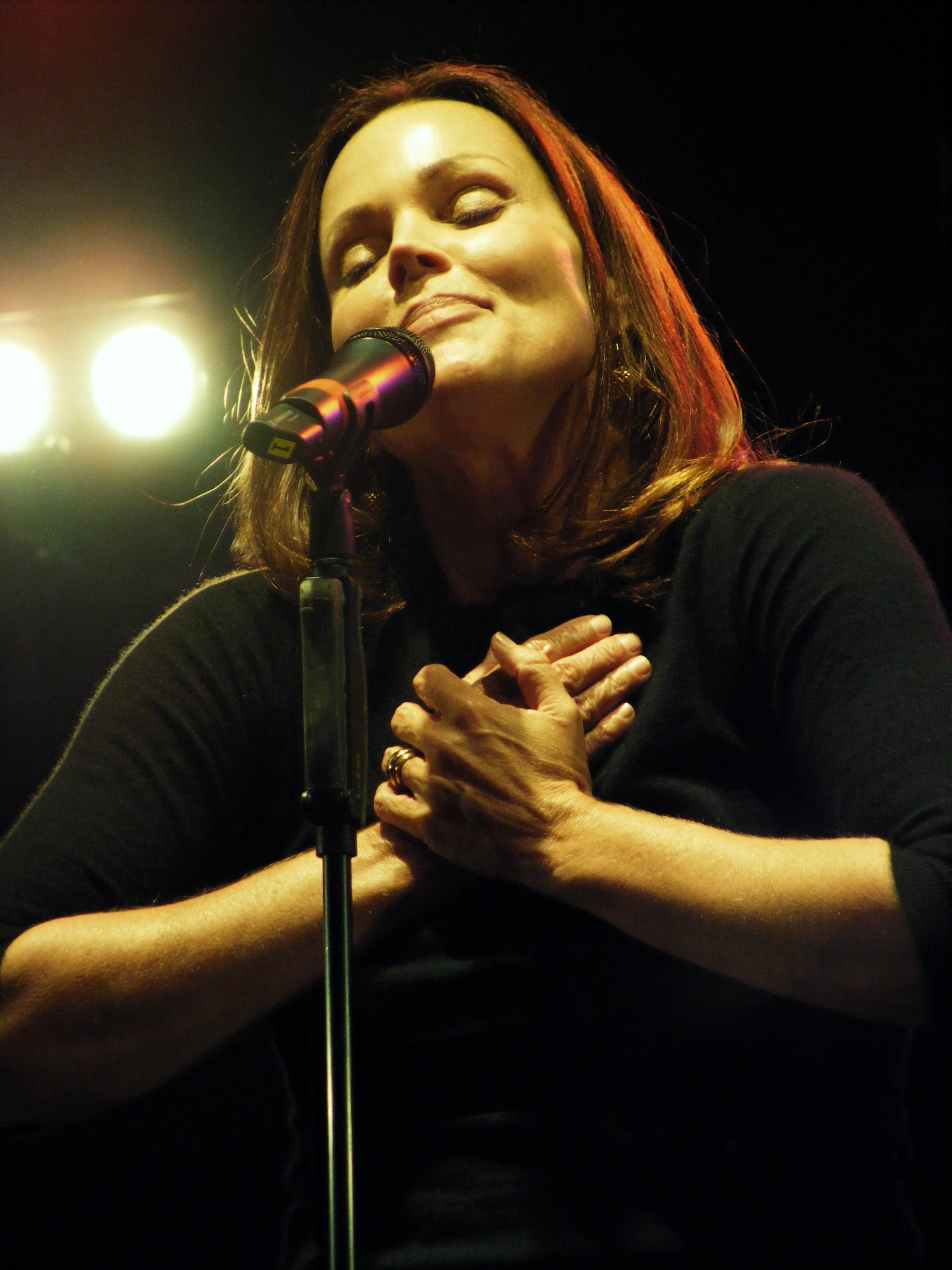 Belinda Carlisle at Manchester Pride on Friday the 27th of August 2010